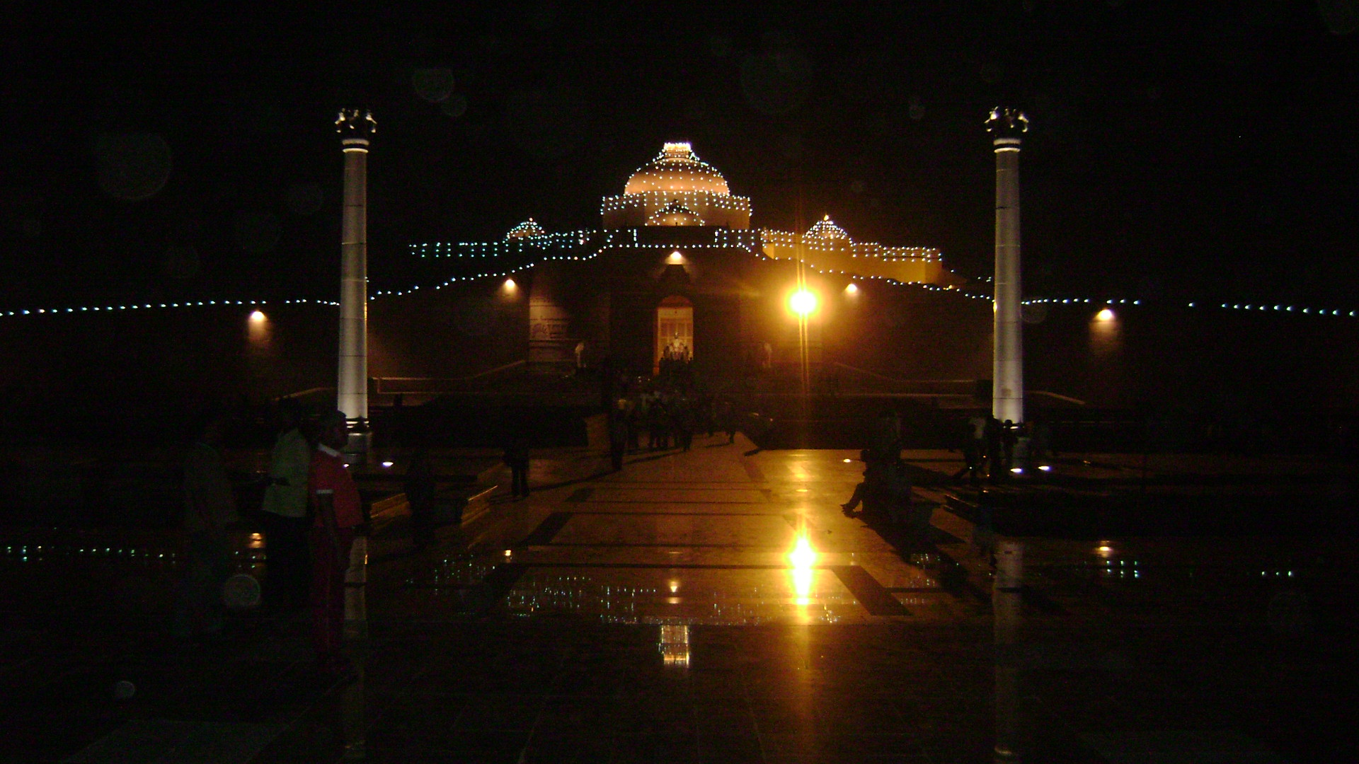 Ambedkar Stupa Night View, Dr.B.R.Ambedkar Samajik parivarthan sthal, Lucknow